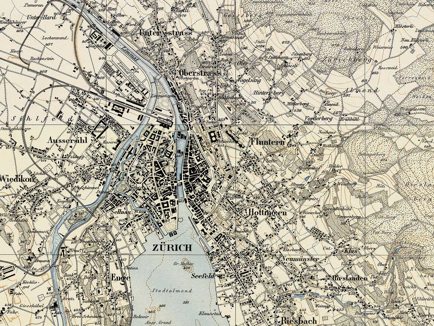 The city of Zürich on the Siegfried Map of 1881, scale 1:25,000